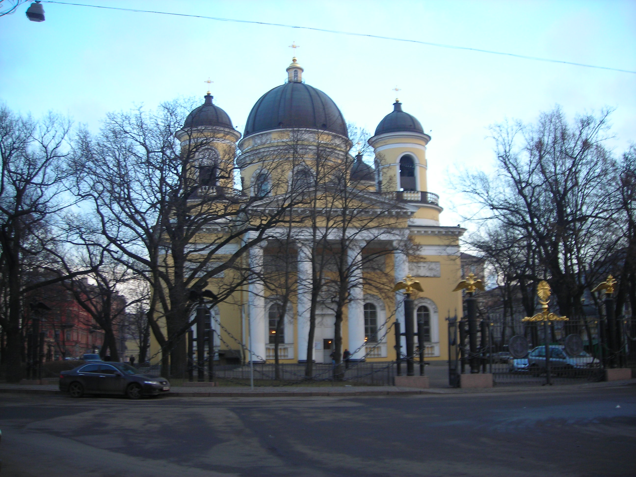 Transfiguration Cathedral, Spb